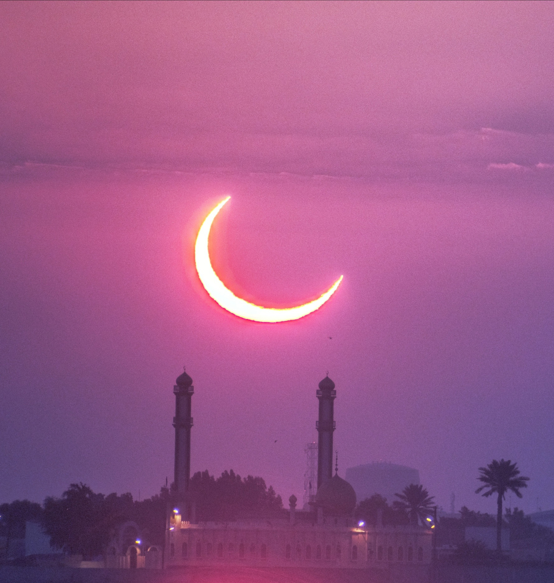 2019 solar eclipse rise behind nabi saleh mosque مشهد شروق كسوف 2019 خلف مسجد نبي صالح في البحرين